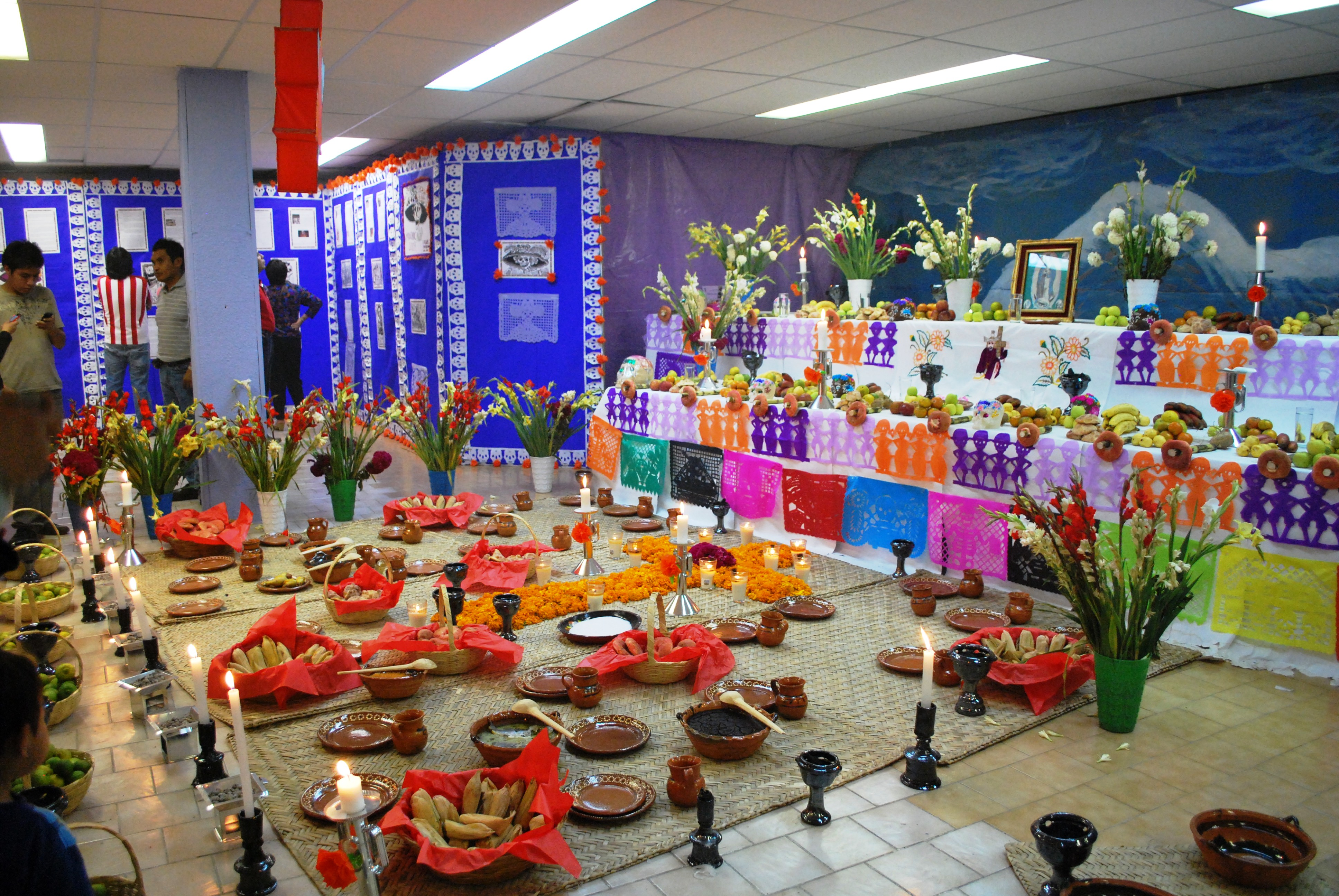 Giant ofrenda (altar to the dead) on display at the library/museum of San Andres Mixquic in Mexico City